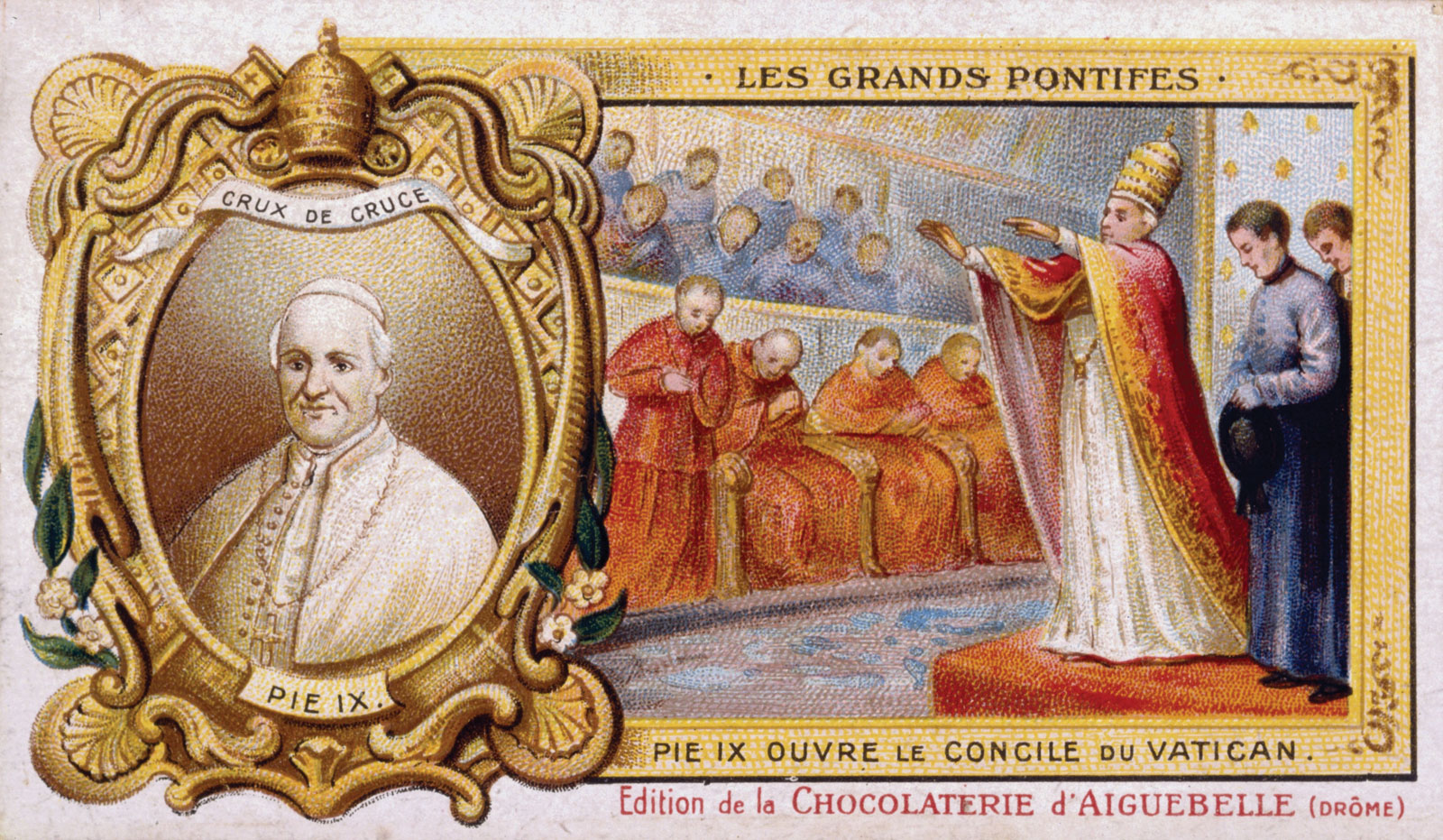 Pope Pius IX at the First Vatican Council. It reads: "The great pontiffs" (above), "Pius IX opens the Vatican Council." (below), "Chocolate factory of Aigebelle editions (Drôme)" (all down)